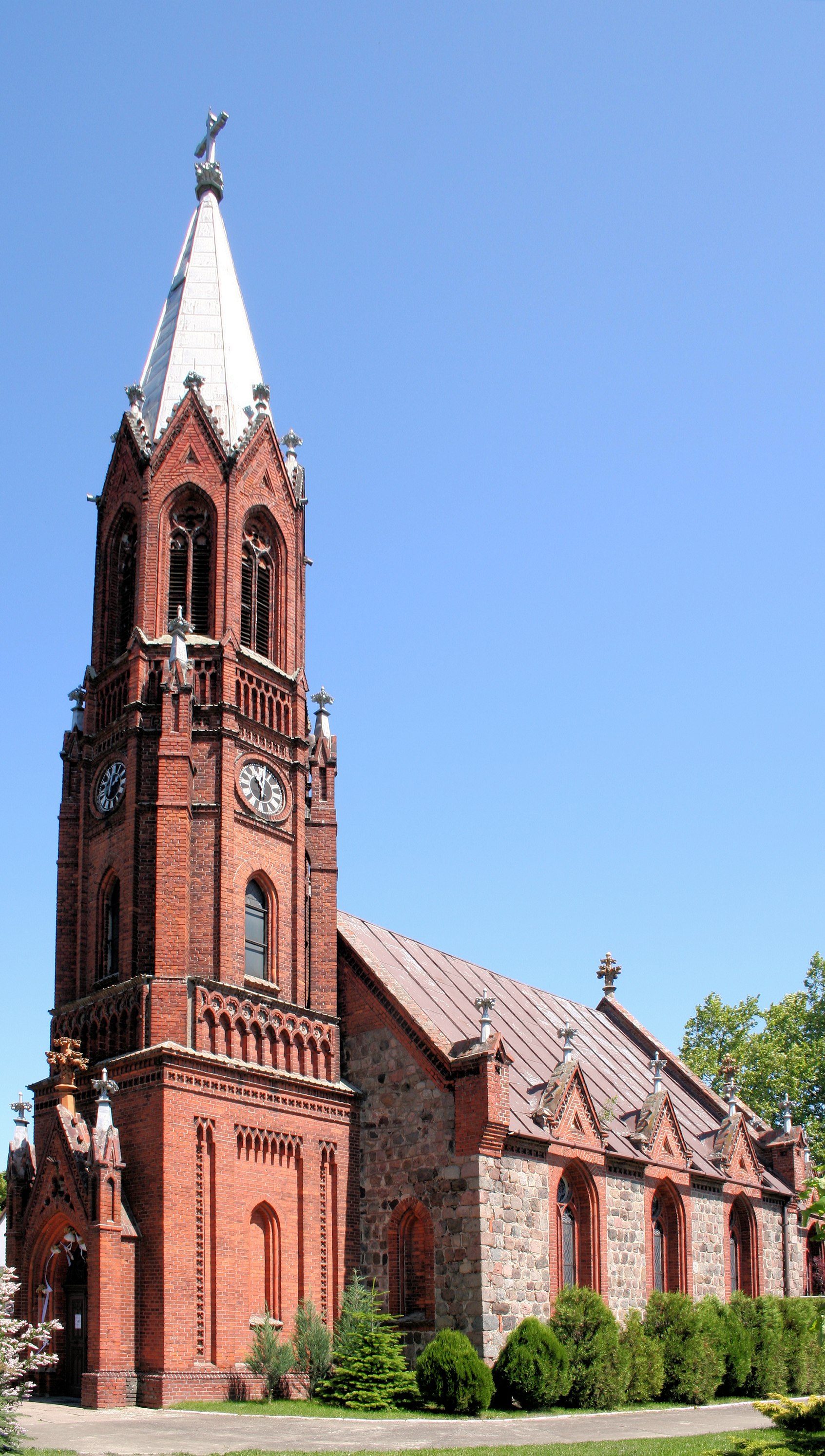 Church of the Assumption of the Blessed Virgin Mary in Troszyn, West Pomeranian Voivodeship